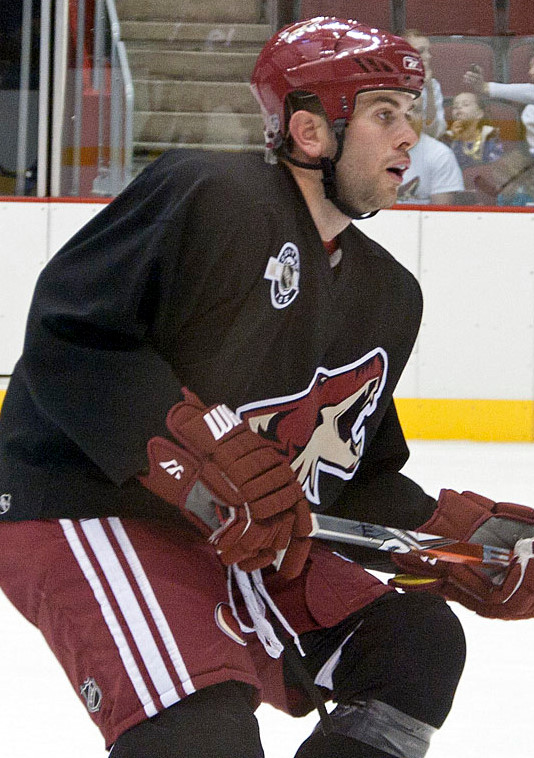 Phoenix Coyotes defenceman Keith Yandle during a practice in September 2010.